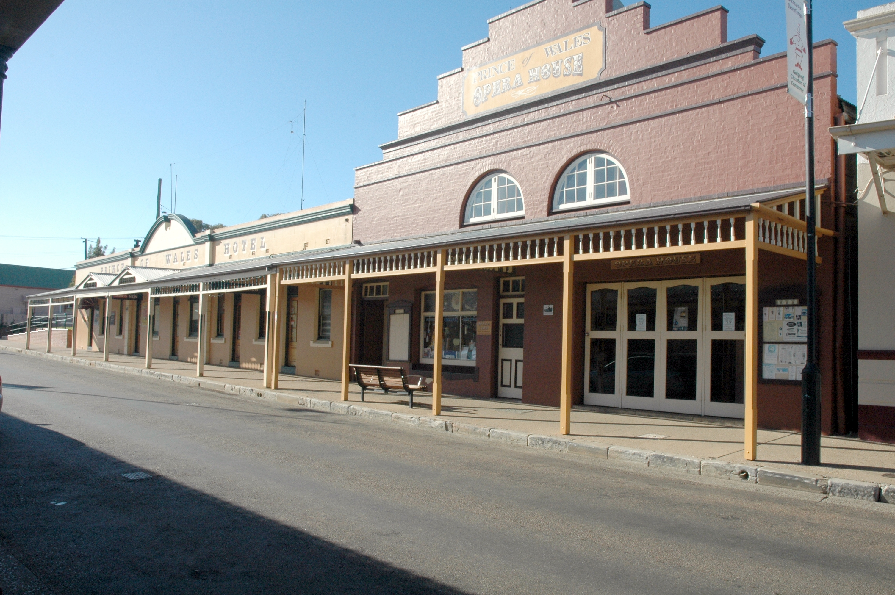 The Prince of Wales Opera House and the adjacent Prince of Wales Hotel; Gulgong NSW